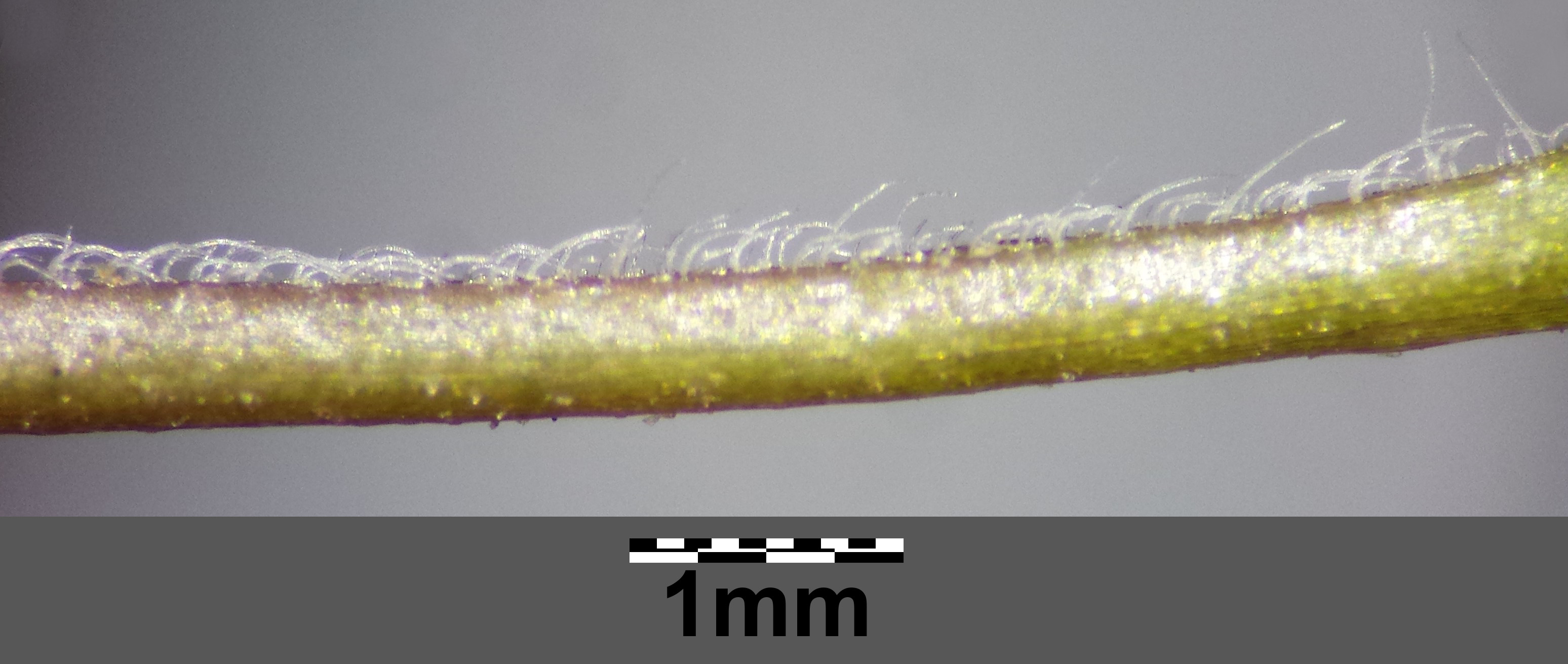 Pedicel with hair line (above) Taxonym: Veronica hederifolia s. str. ss Fischer et al. EfÖLS 2008 ISBN 978-3-85474-187-9 Location: near Niederhollabrunn, district Korneuburg, Lower Austria - ca. 350 m a.s.l. Habitat: field